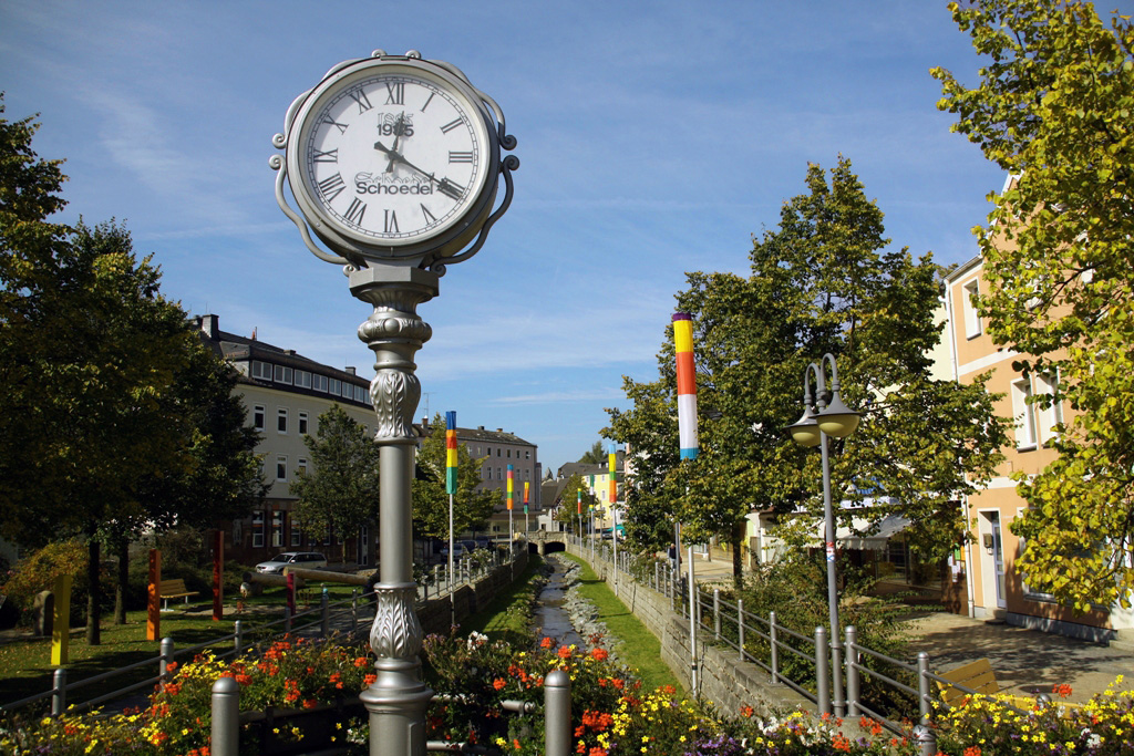 Lindenstreet of Münchberg